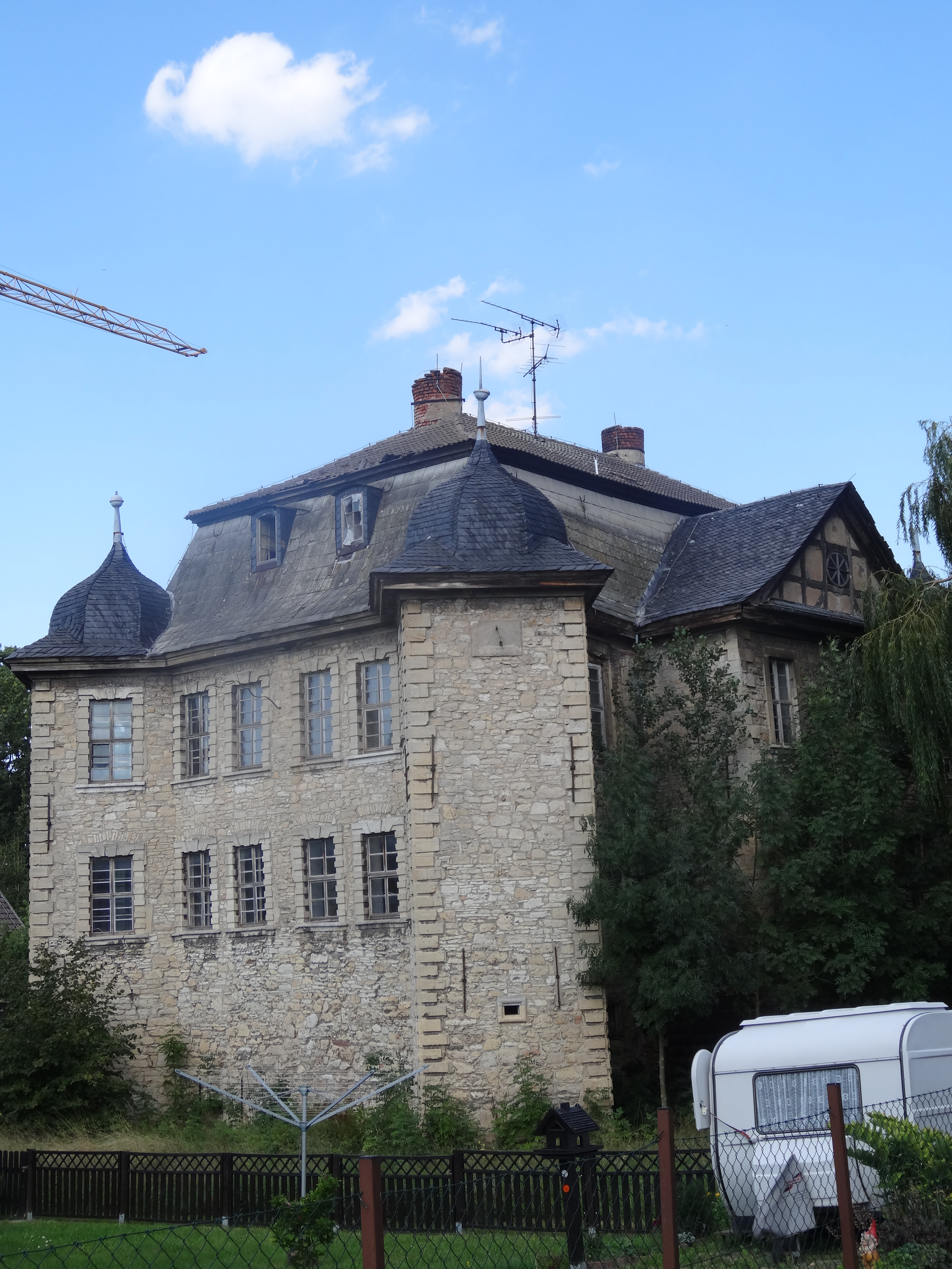 Castle in Niedergebra, Thuringia, Germany